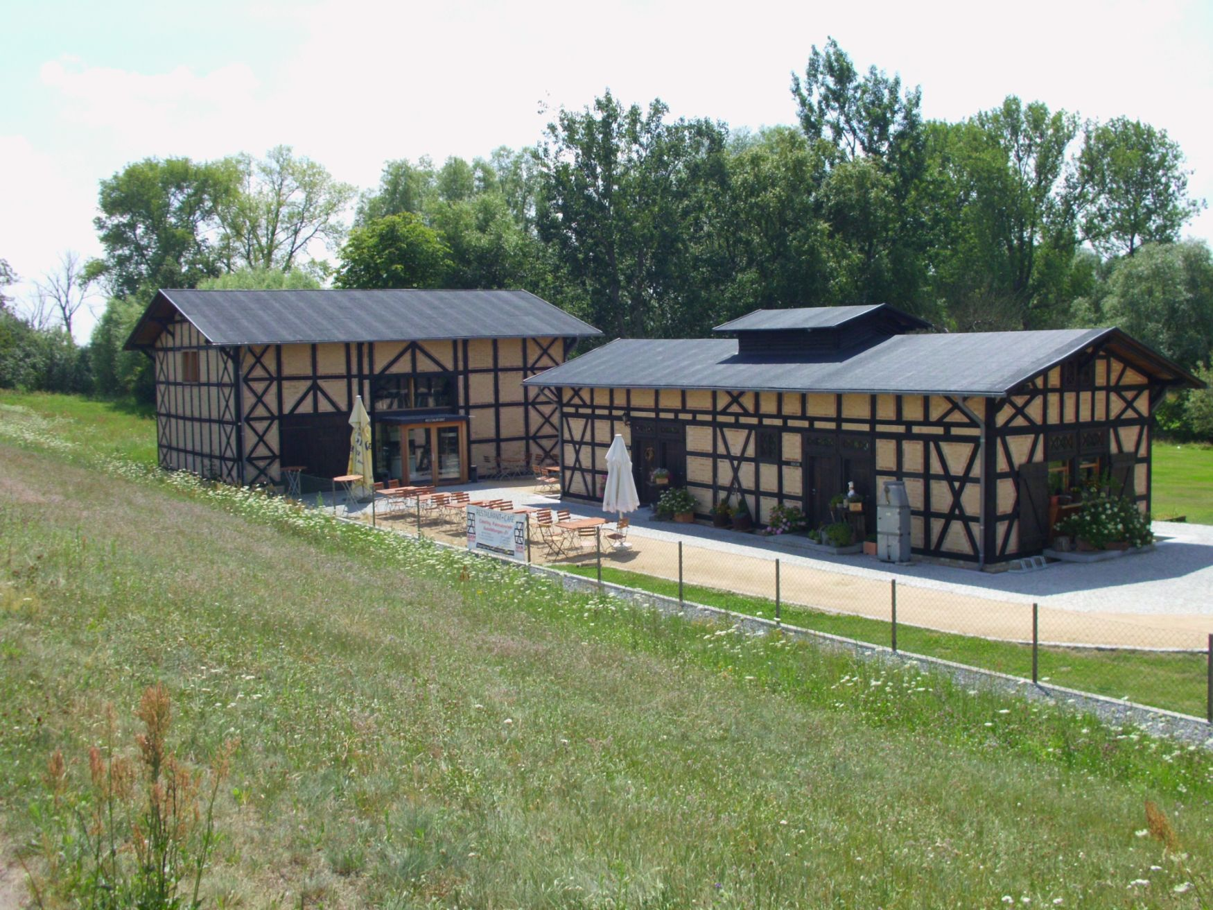 Old Dike Masterhouse